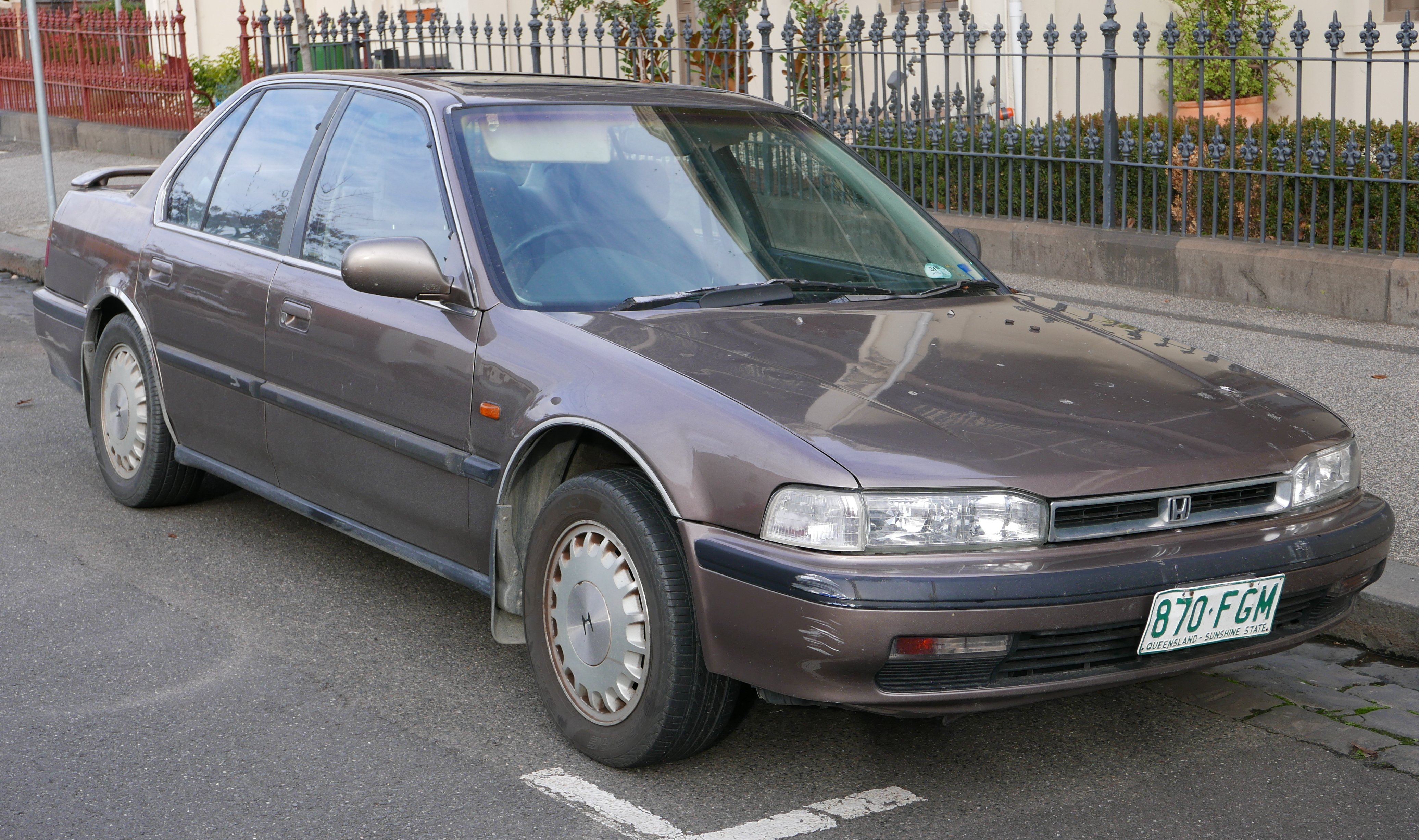 1991 Honda Accord (CB7) EXi sedan. Photographed in Parkville, Victoria, Australia. Vehicle registration enquiry results Jurisdiction Queensland Registration 870FGM Chassis code JHMCB76500C106456 Year of manufacture 1991